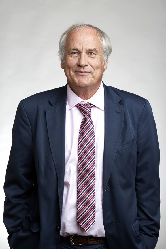 Graeme Leslie Stephens is director of the center for climate sciences at the NASA Jet Propulsion Laboratory at the California Institute of Technology and professor of earth observation the University of Reading Attribution: The Royal Society